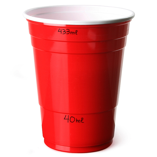 Mathematical formula